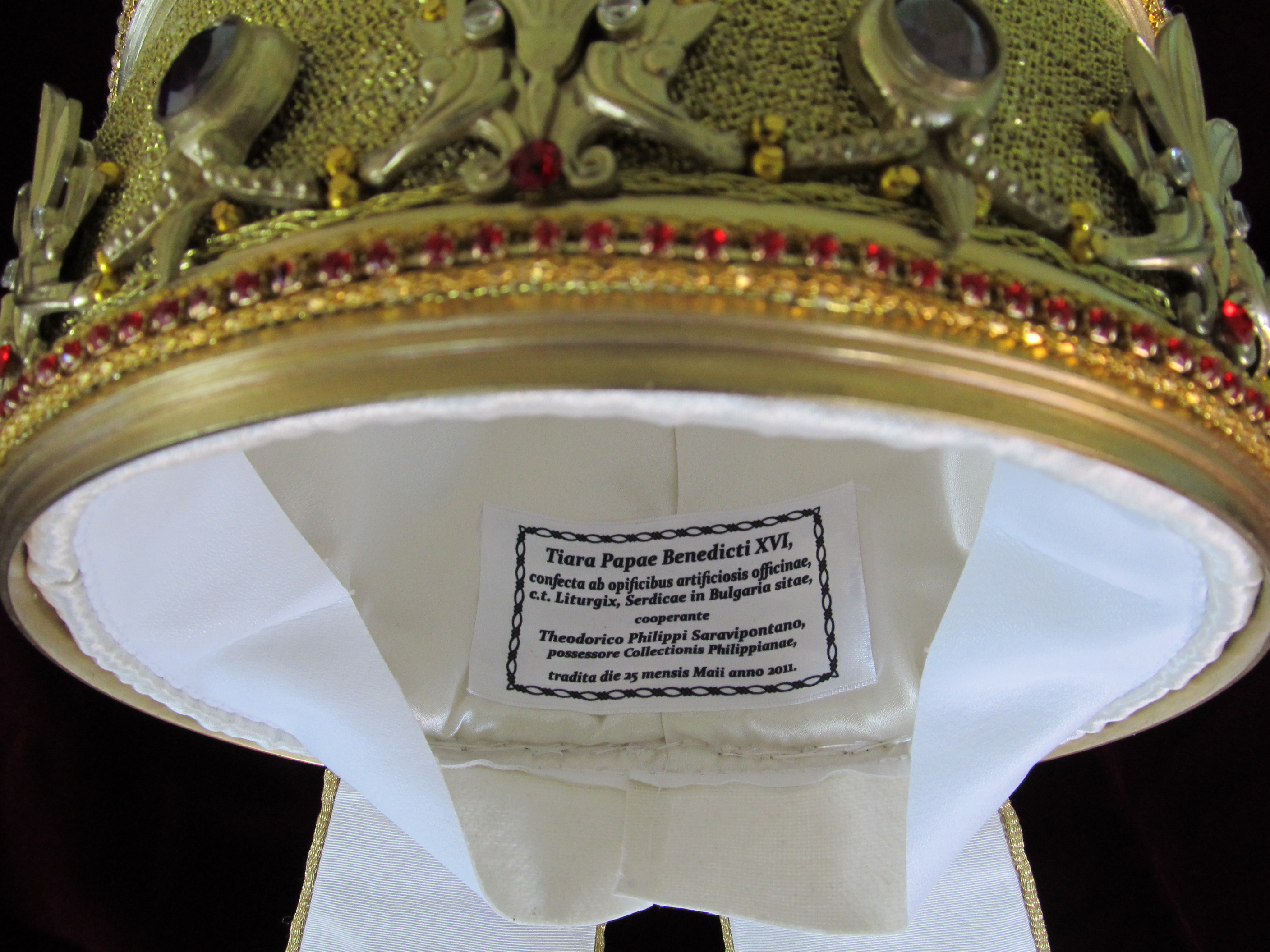 Inside of the Tiara of Pope Benedict XVI